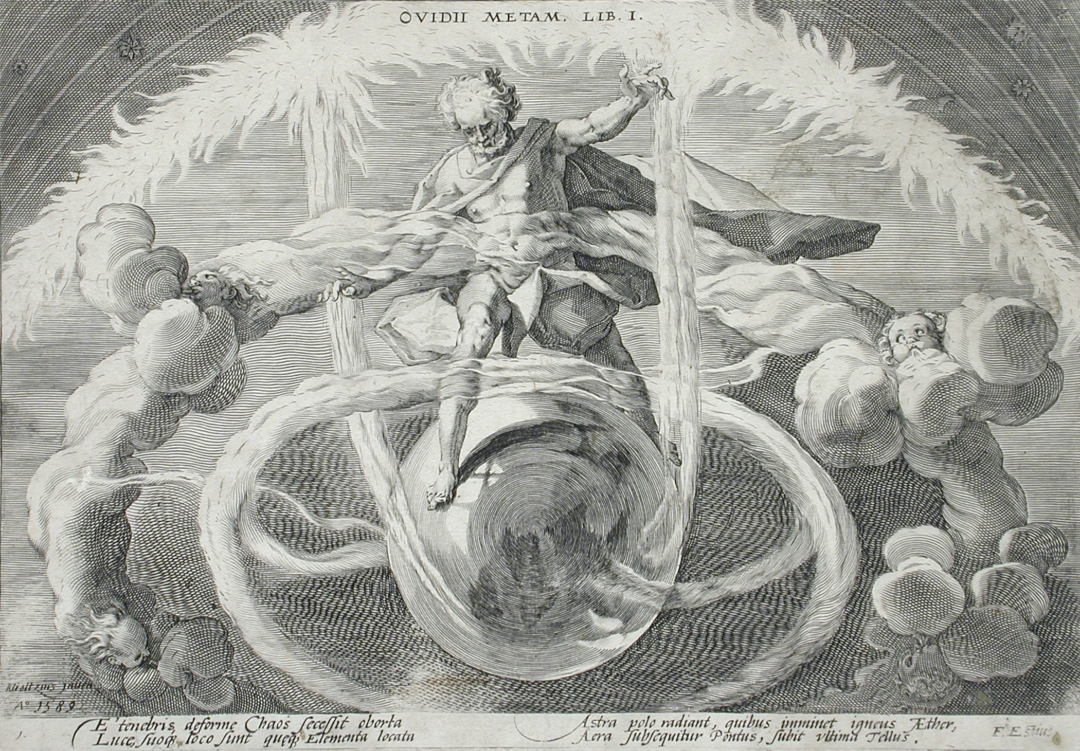 Holland, published 1589 Book: Metamorphoses by Ovid, book 1, plate 1, title page Prints; engravings Engraving Gift of Mrs. Irene Salinger in memory of her father, Adolph Stern (54.70.1a) Prints and Drawings